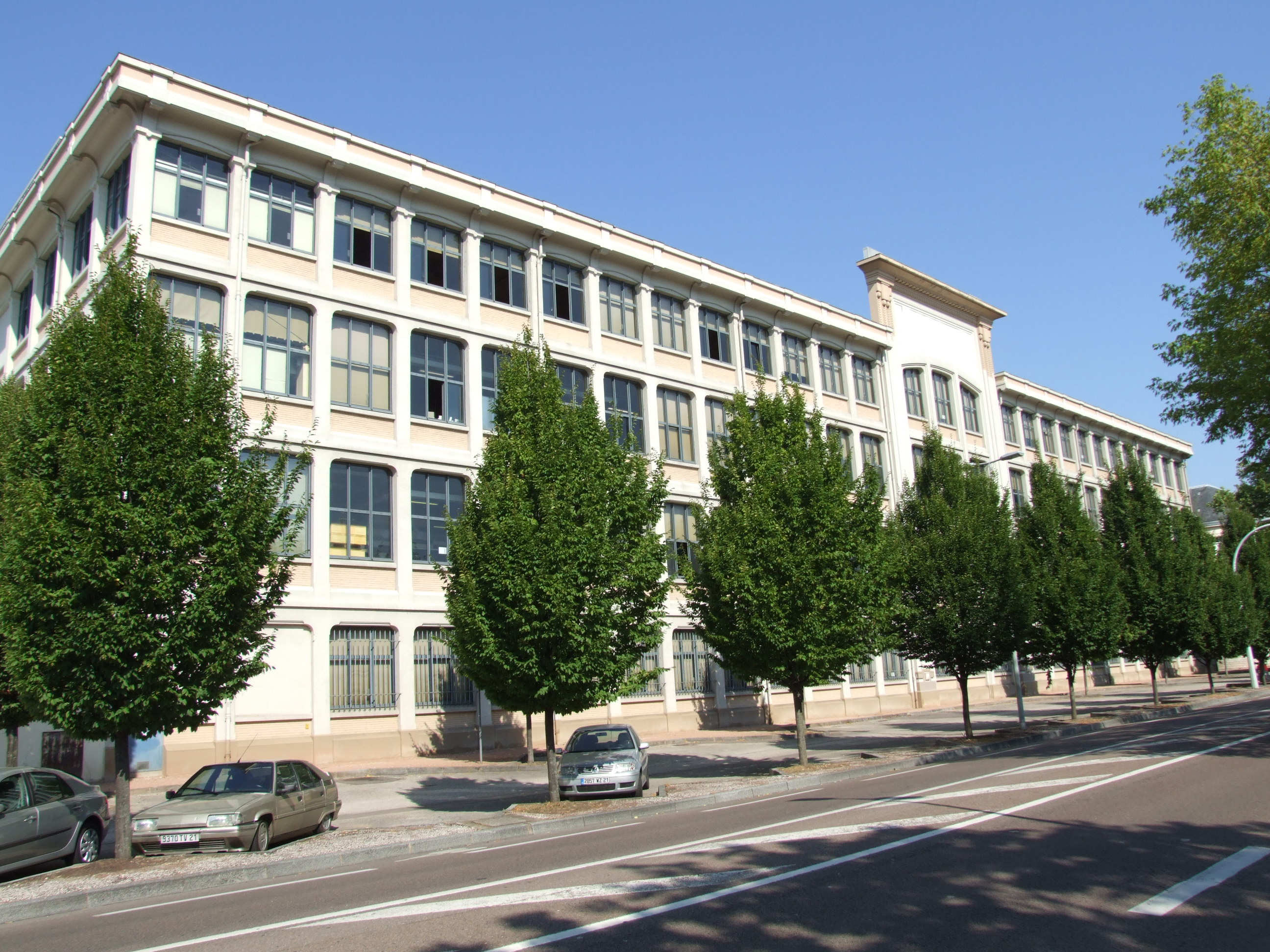 Dijon, Burgundy, France